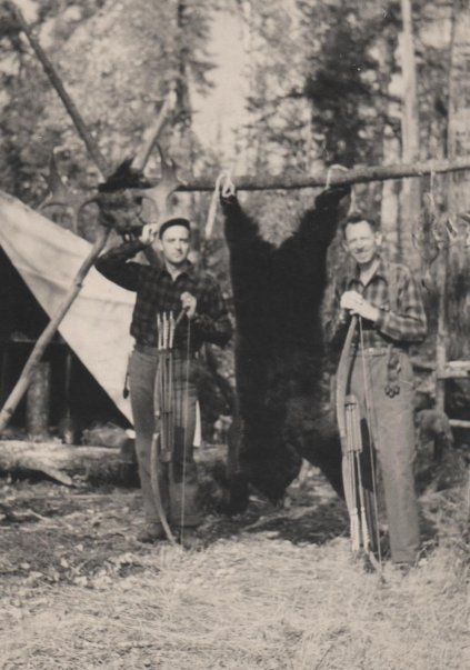 Fred Bear and Jim Henderson, on a Moose Hunt in Ontario Canada in 1943. This was Jim's first Moose and Fred's first Bear. The Moose was mounted finally mounted in 2011 by David Collins Taxidermy in Dothan, Alabama.